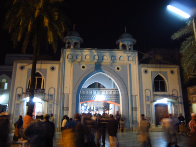 Hazrat Shahjalal Mazar Gate or Dorga Gate at Amborkhana, Sylhet. A eastern divisional town of Bangladesh. Hazrat Shahjalal is a famous Islami personality.